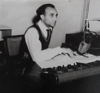 Picture of Mustafa Ali Hamdani in the PBC Newsroom. He was the first radio announcer of independence of Pakistan on August 14, 1947.